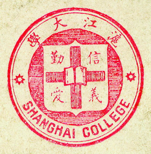 Emblem of the University of Shanghai (1906-1952)